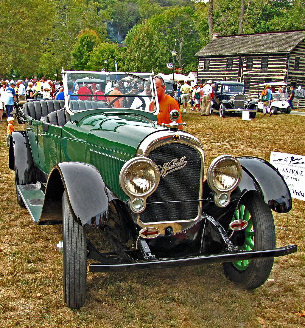 1920 Westcott automobile. The original Westcotts were built in Richmond, Indiana; production moved to Springfield, Ohio in 1915. Made from 1915 to 1925 most, acording to what I read, had 6-cylinder Continental angines. I had never heard of the car until I saw it at the Dayton Concours d'Elegance.